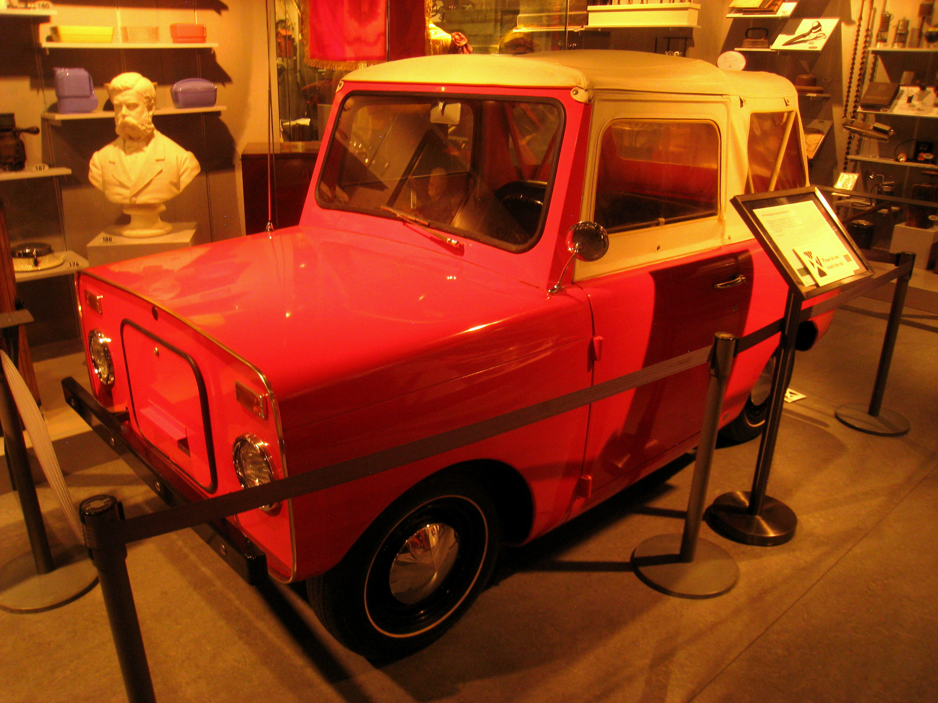 1967 Westinghouse Markette Electric Car; this car has serial number 01. Exhibit in the Senator John Heinz History Center, 1212 Smallman Street, Pittsburgh, Pennsylvania, USA. There were no restrictions on photography in the museum collections.